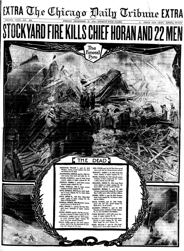 Chicago Daily Tribune cover page showing the 1910 Stock yards fire.